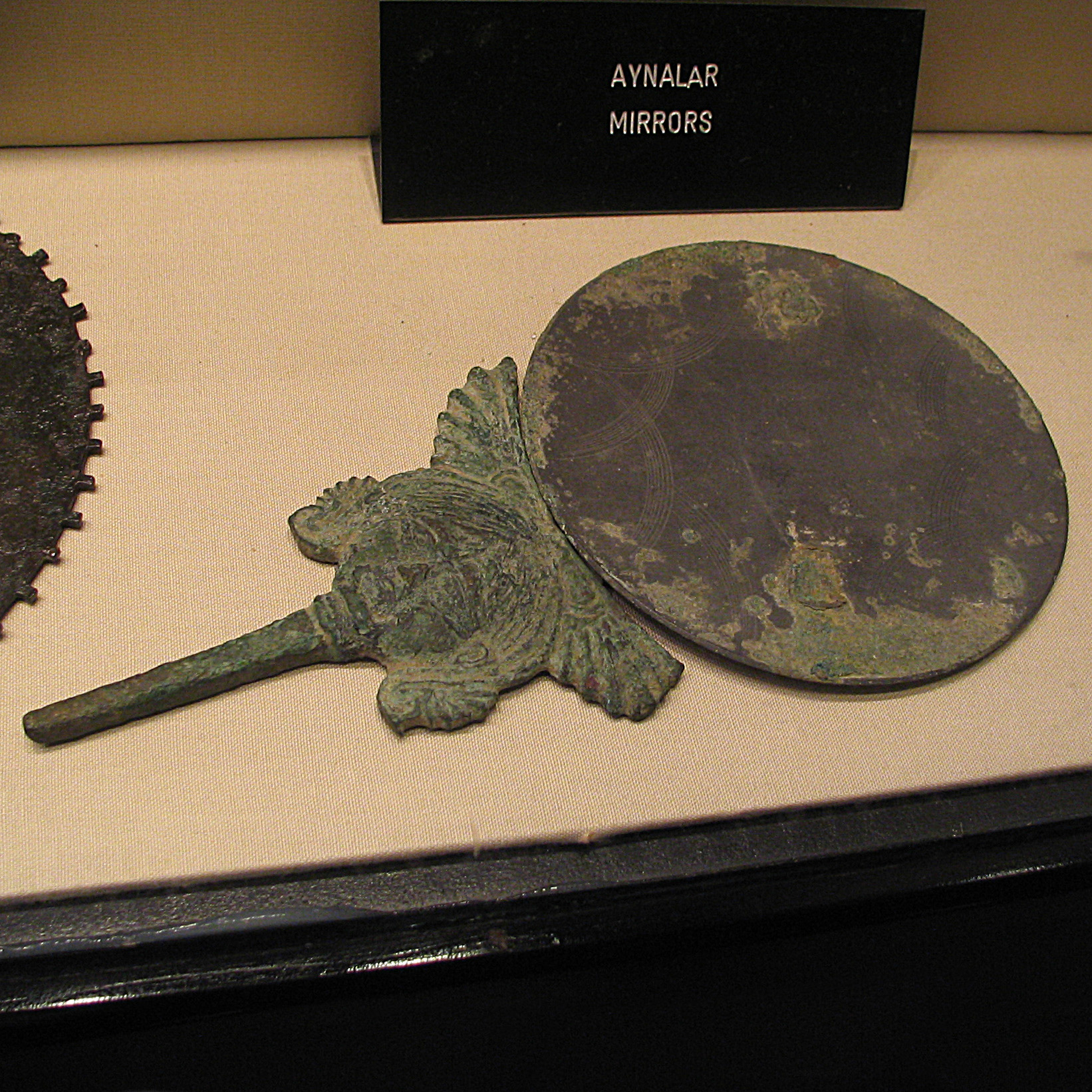 Mirror, Archeological museum Alanya, Turkey.